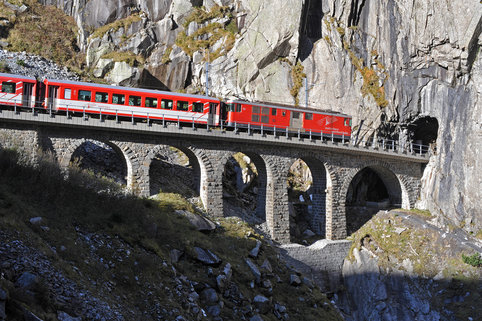 Leaning bridge of the Schöllenen railway near the devil's bridge; Uri, Switzerland.